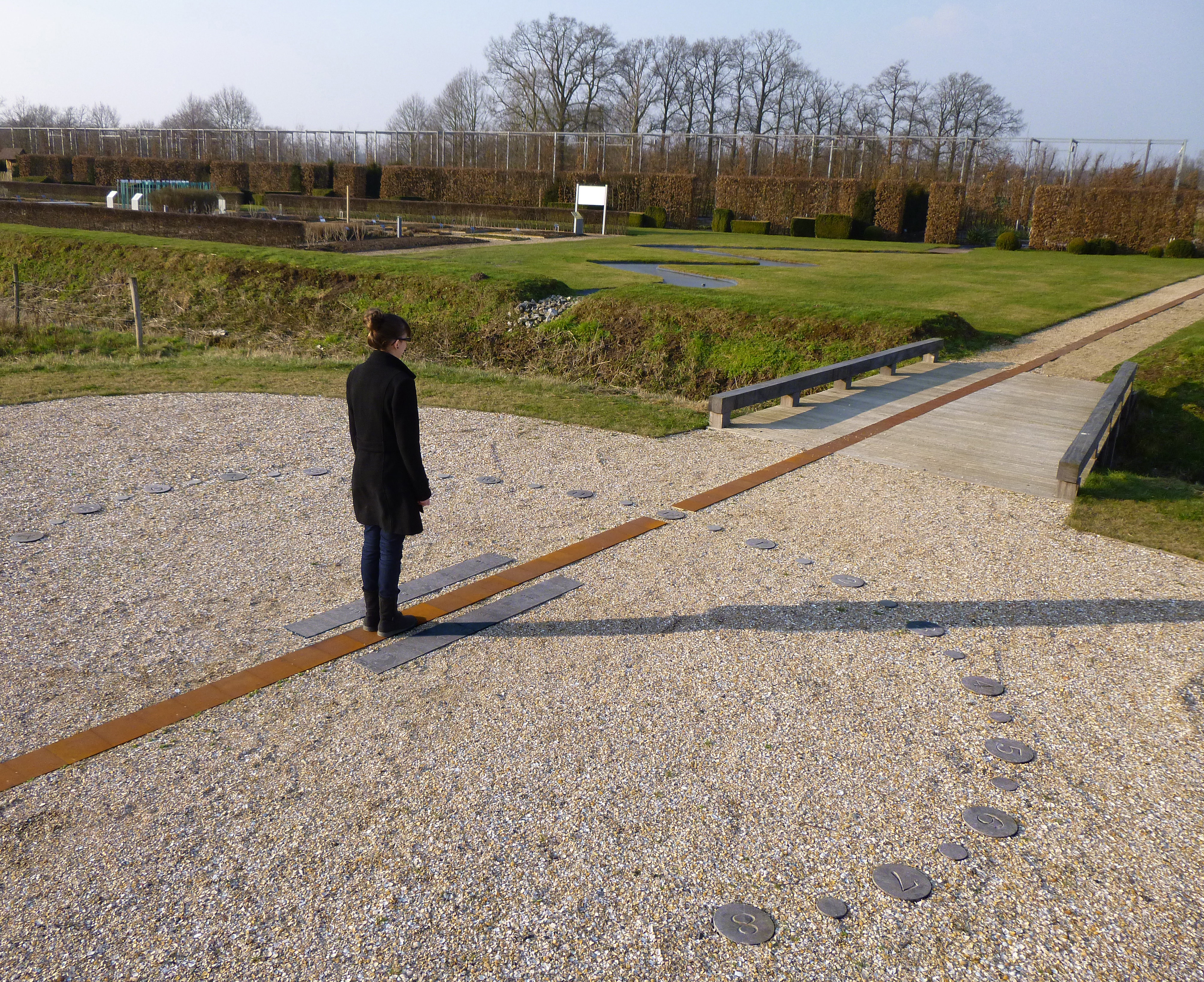 Analemmatic sundial Herkenrode Design Willy Leenders